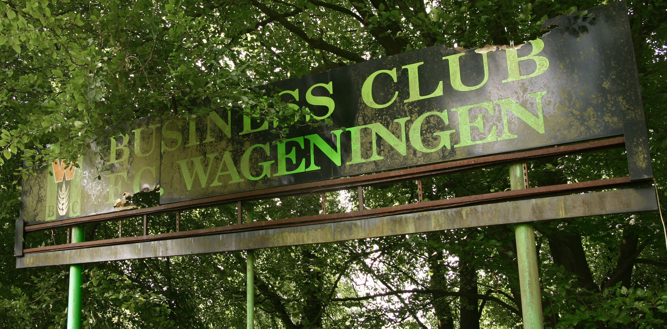 Remains of "FC Wageningen Business Club".